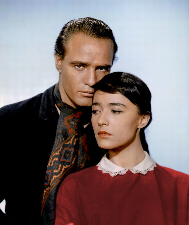 Publicity photo for the film One-Eyed Jacks (1961) featuring leading actors in the film Pina Pellicer and Marlon Brando.